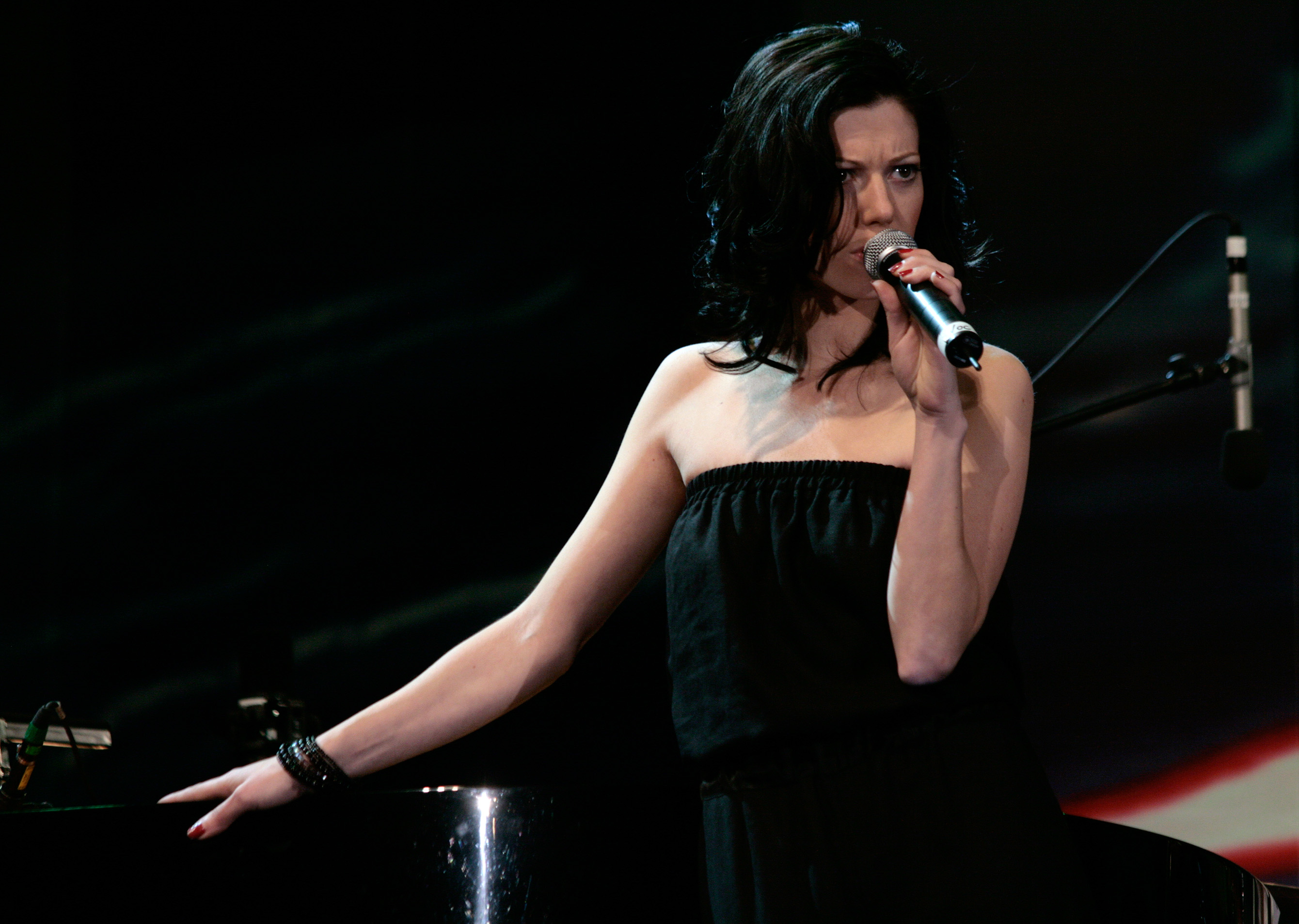 Gustav; concert at the opening of the Vienna Festival 2009